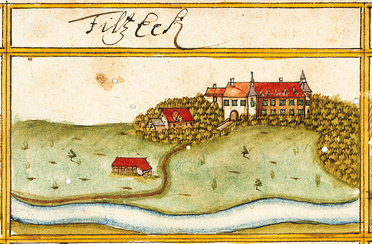 View of Filseck, Uhingen, from the forest register books created by Andreas Kieser